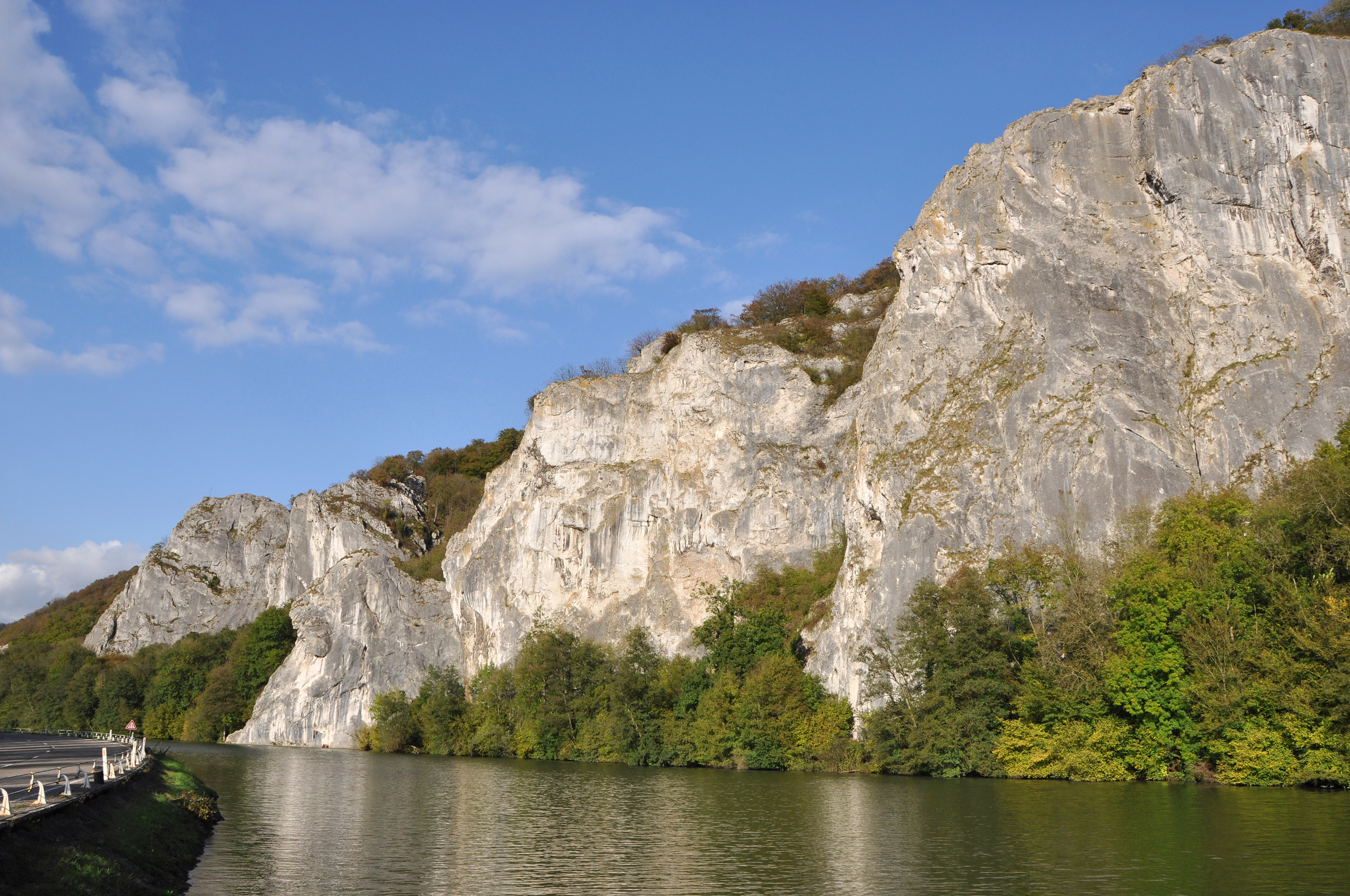 Dinant (Belgium): the Meuse and the Freÿr Rocks